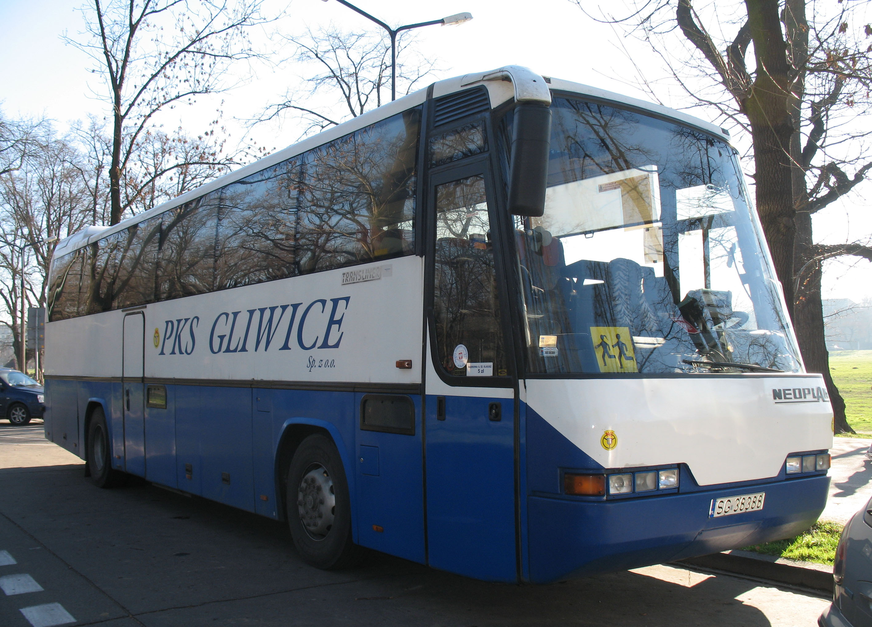 Neoplan Transliner N316 SHD coach in Kraków, Poland. Built 1999, PKS Gliwice operator.